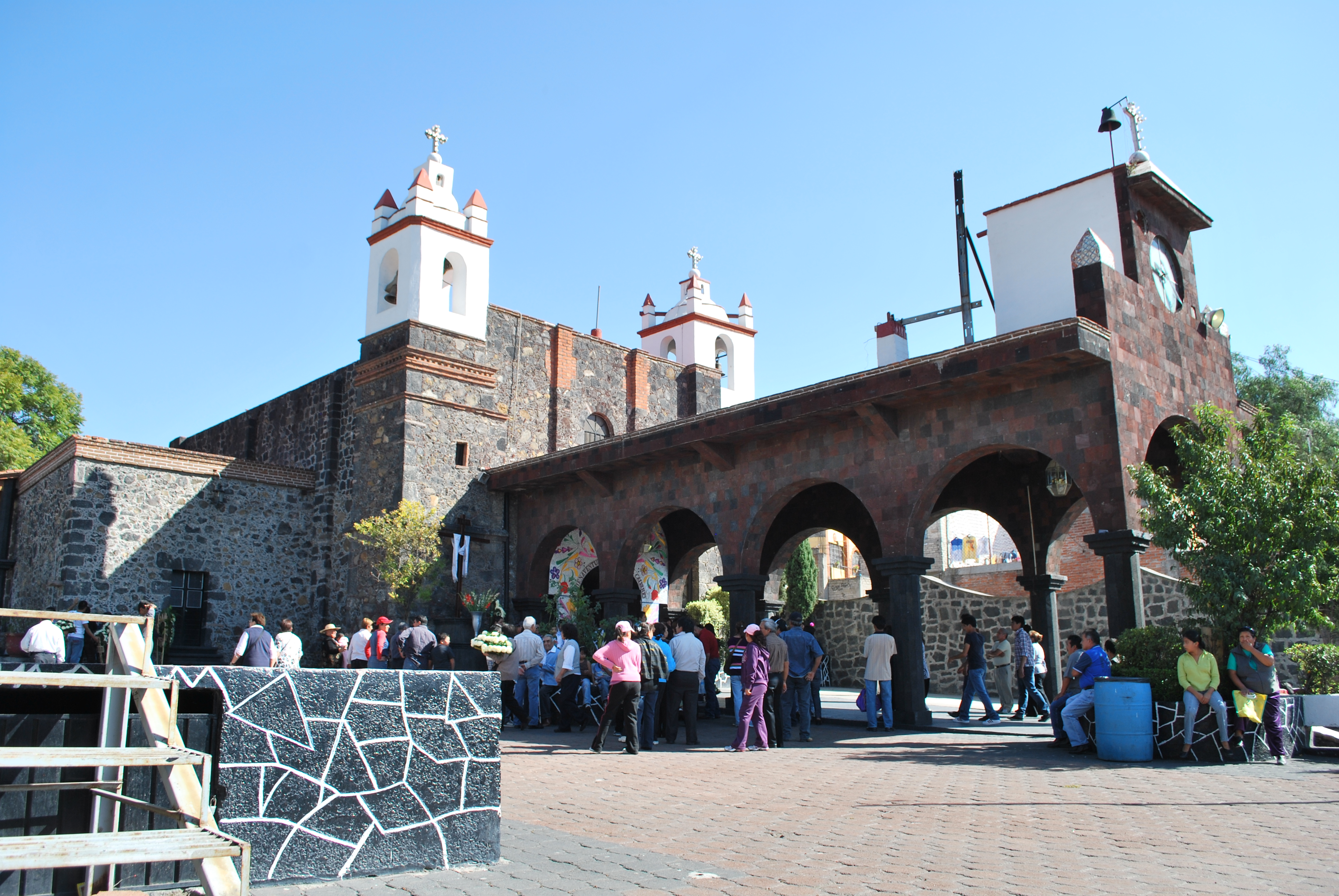 View of the Capilla del Señor del Calvario, Culhuacán, Mexico City